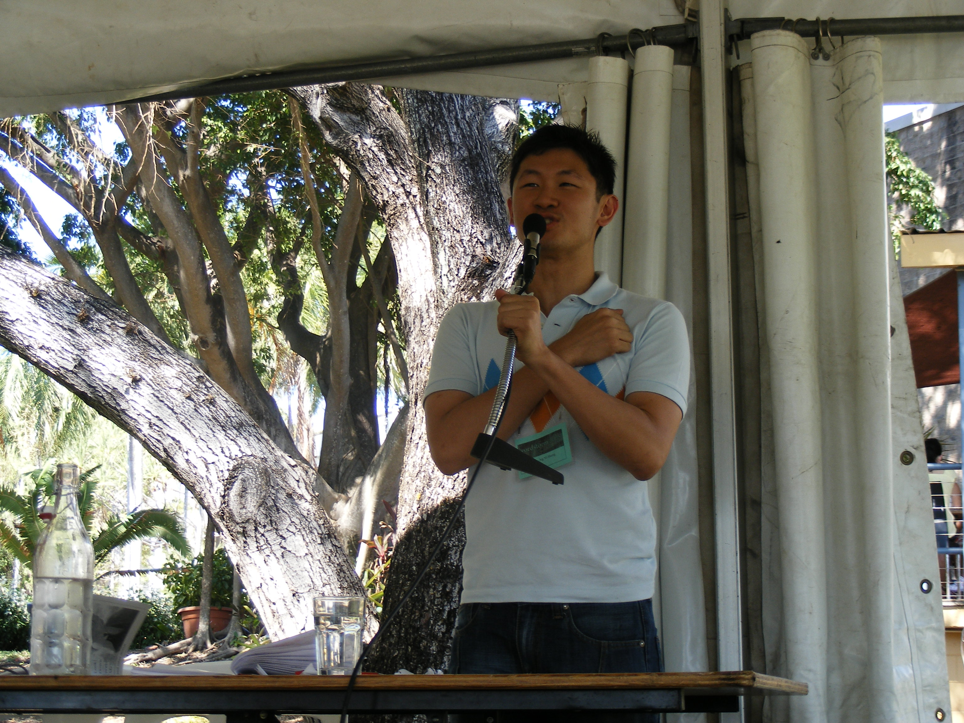 Ng Yi-Sheng, Singaporean writer.